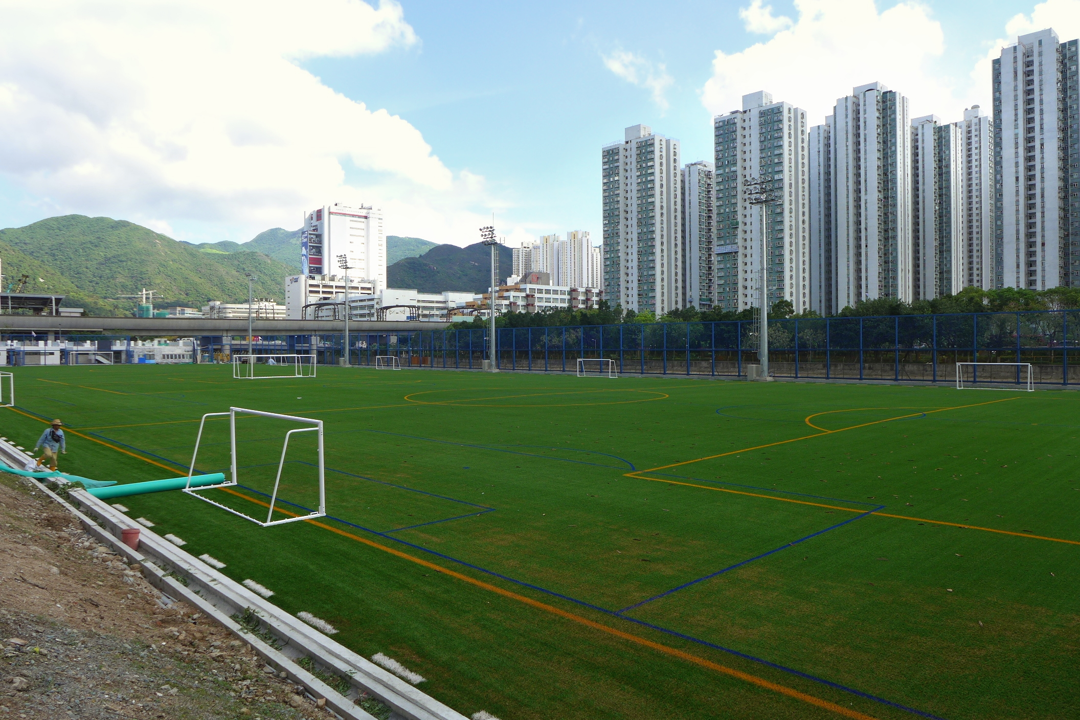 The Jocket Club KitChee Centre Site